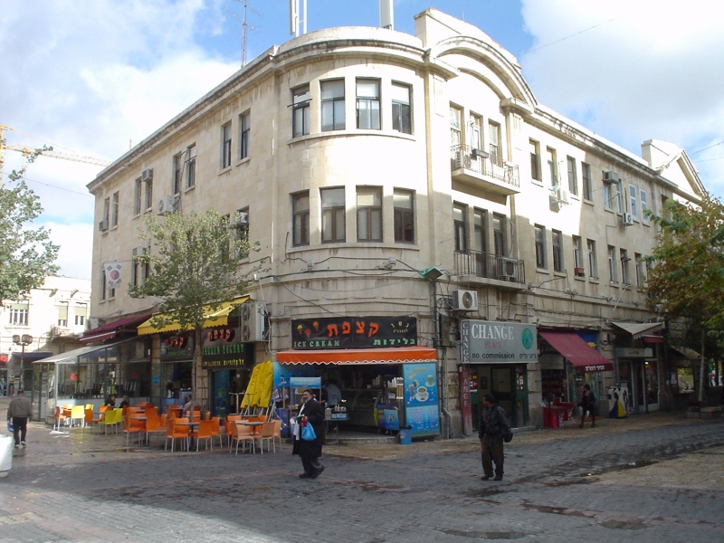 sansur building, Jerusalem